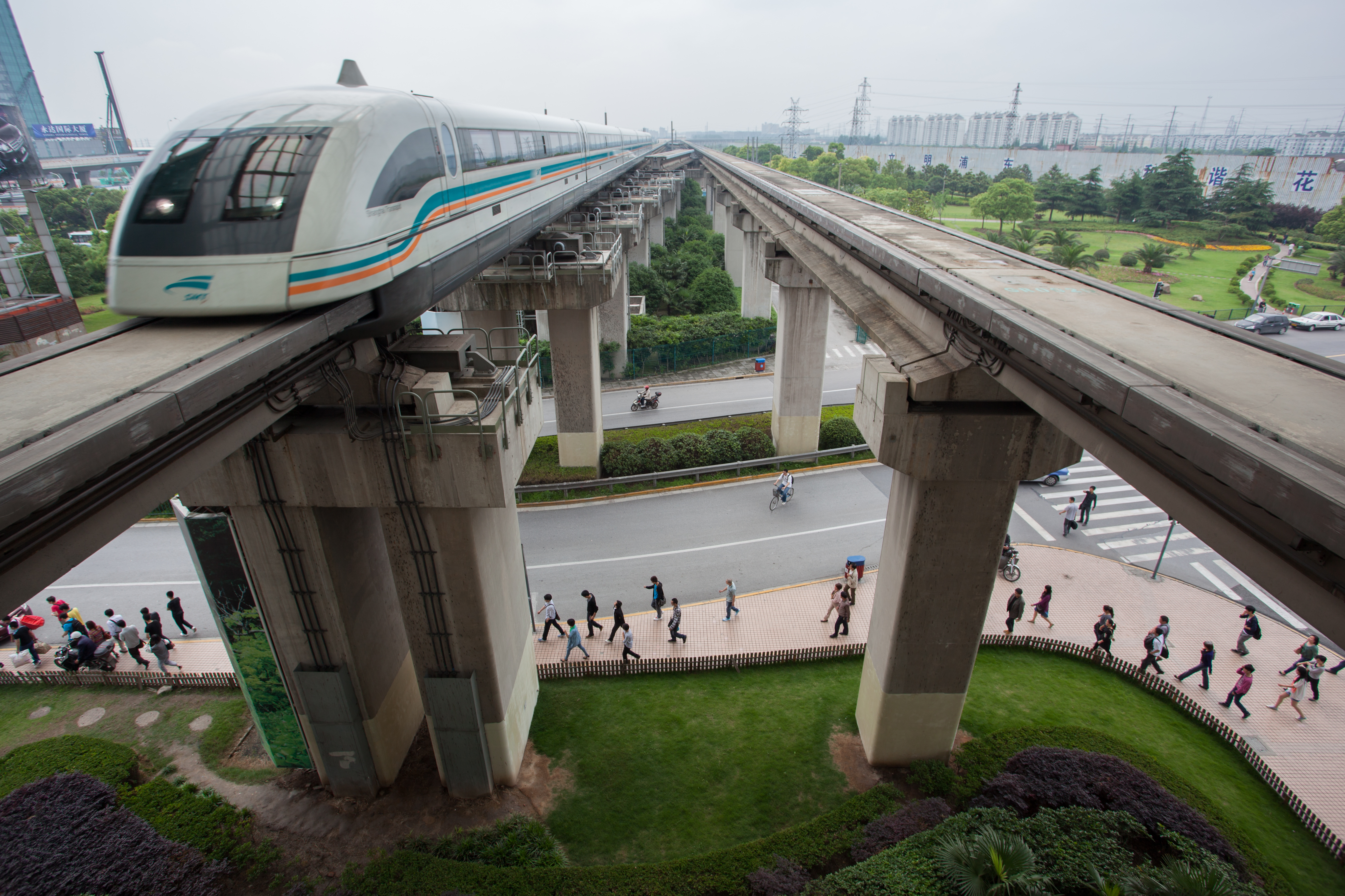 The maglev train in Shanghai